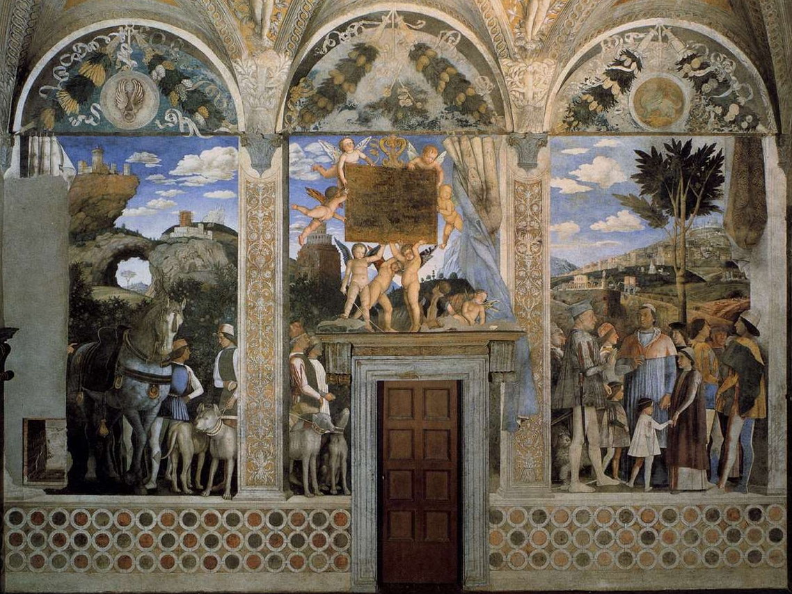 Camera picta - The Meeting